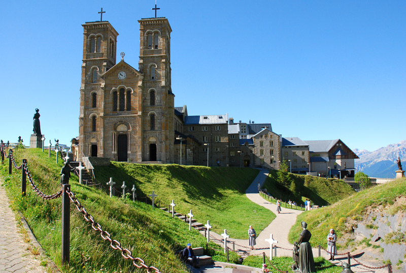 La Salette, France.